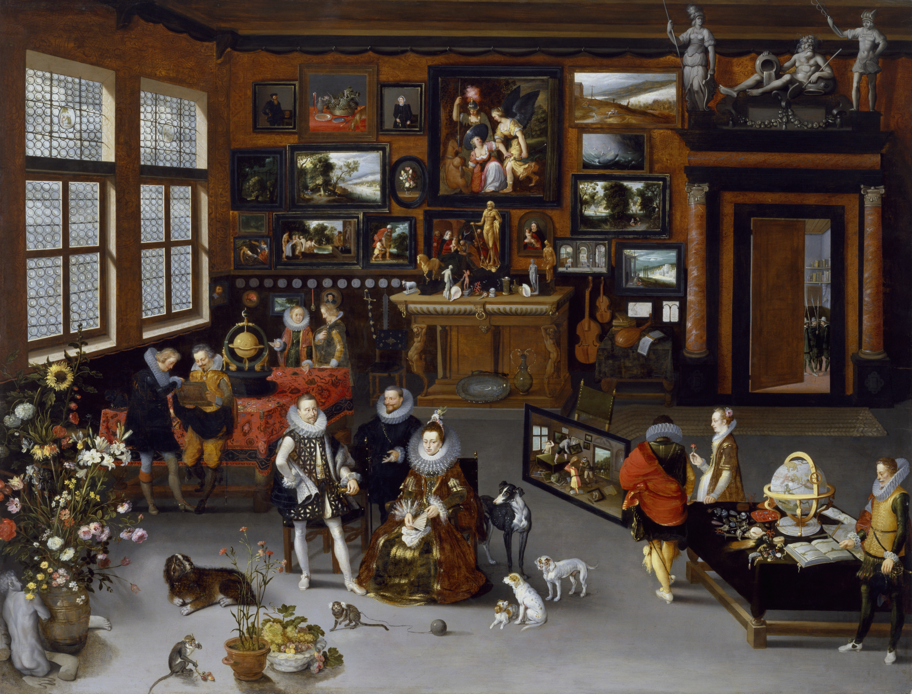 This painting of a private gallery or cabinet of a Flemish collector depicts a visit by Archdukes Albert and Isabella, the Habsburg governors of the Southern Netherlands. Isabella is seated, while her husband stands to her right and their unidentified host, behind. The walls are covered with paintings by Flemish artists. The sculpture displayed throughout is from various schools, but includes the bronze "Allegory of Architecture" by Giambologna, a Flemish sculptor who made his fortune in Florence. A painted "Allegory of Iconoclasm," depicting people who destroy art as animals, rests against a chair. Visitors examining paintings and objects on the tables draw the viewer's attention to these objects, as well as shells and a stuffed bird of paradise, from the Spice Islands. Pets include a monkey, kept out of mischief on a chain, and a dog, apparently with two heads (an alteration by the artist that has "bled" through). The globe-like object on the table at the left is one of Cornelis Drebbels' attempts at a perpetual-motion clock; the principles which ran it are now lost. Depictions of art collections were a specialty of Antwerp painters. Albert's and Isabella's role as rulers and patrons of the arts is celebrated here in an unprecedented way. The immense vase of flowers by Jan Brueghel, the greatest Flemish flower painter, is crowned by a large sunflower. This South American flower which could grow to be 14 feet tall and could turn toward the sun, was first seen by Europeans in the mid-1500s. It had been illustrated as a New World wonder in botanical treatises, but this is its earliest inclusion in a painting and its earliest use as a symbol of princely patronage. In turning to the sun (but here toward Albert and Isabella), it symbolizes the way that the arts grow and blossom in the light and warmth of princely patronage.